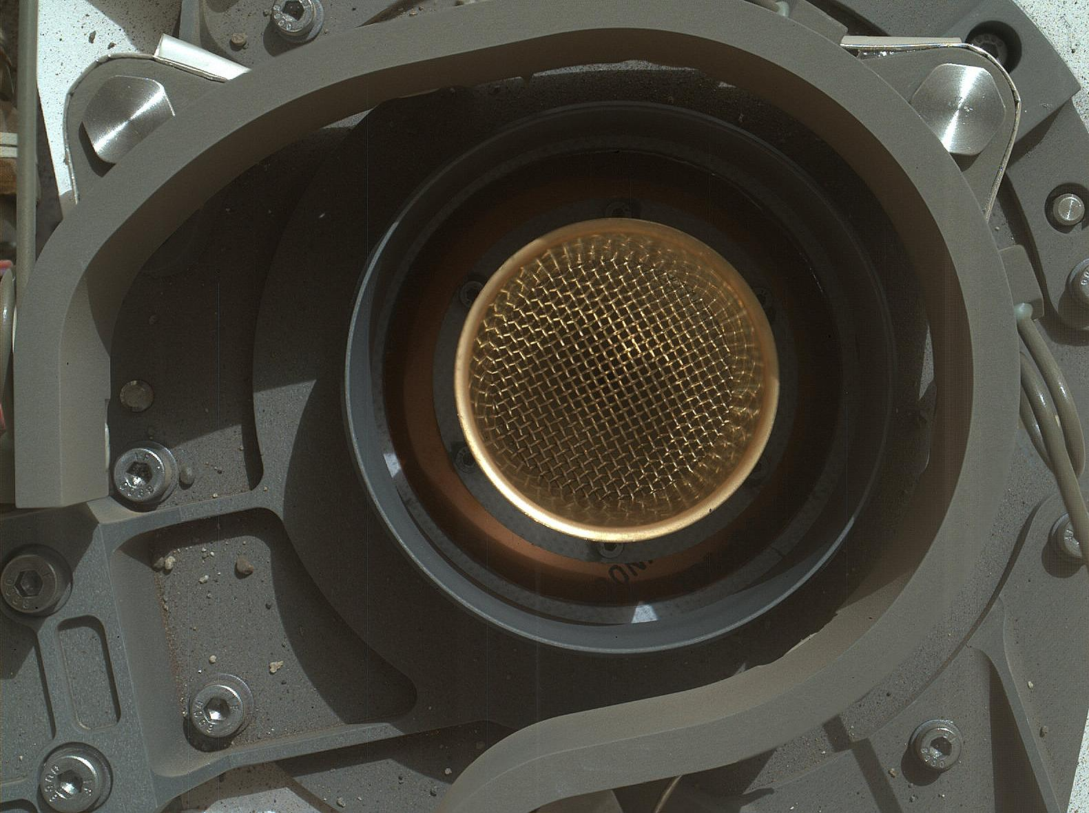 09.12.2012 Say 'Ahh' on Mars This image from NASA's Curiosity rover shows the open inlet where powered rock and soil samples will be funneled down for analysis. It was taken by the Mars Hand Lens Imager (MAHLI) on Curiosity's 36th Martian day, or sol, of operations on Mars (Sept. 11, 2012). MAHLI was about 8 inches (20 centimeters) away from the mouth of the Chemistry and Mineralogy (CheMin) instrument when it took the picture. The entrance of the funnel is about 1.4 inches (3.5 centimeters) in diameter. The mesh screen is about 2.3 inches (5.9 centimeters) deep. The mesh size is 0.04 inches (1 millimeter). Once the samples have gone down the funnel, CheMin will be shooting X-rays at the samples to identify and quantify the minerals. Engineers and scientists use images like these to check out Curiosity's instruments. This image is a composite of eight MAHLI pictures acquired at different focus positions and merged onboard the instrument before transmission to Earth; this is the first time the MAHLI performed this technique since arriving at Curiosity's field site inside Gale Crater. The image also shows angular and rounded pebbles and sand that were deposited on the rover deck during landing on Aug. 5, 2012 PDT (Aug. 6, EDT).